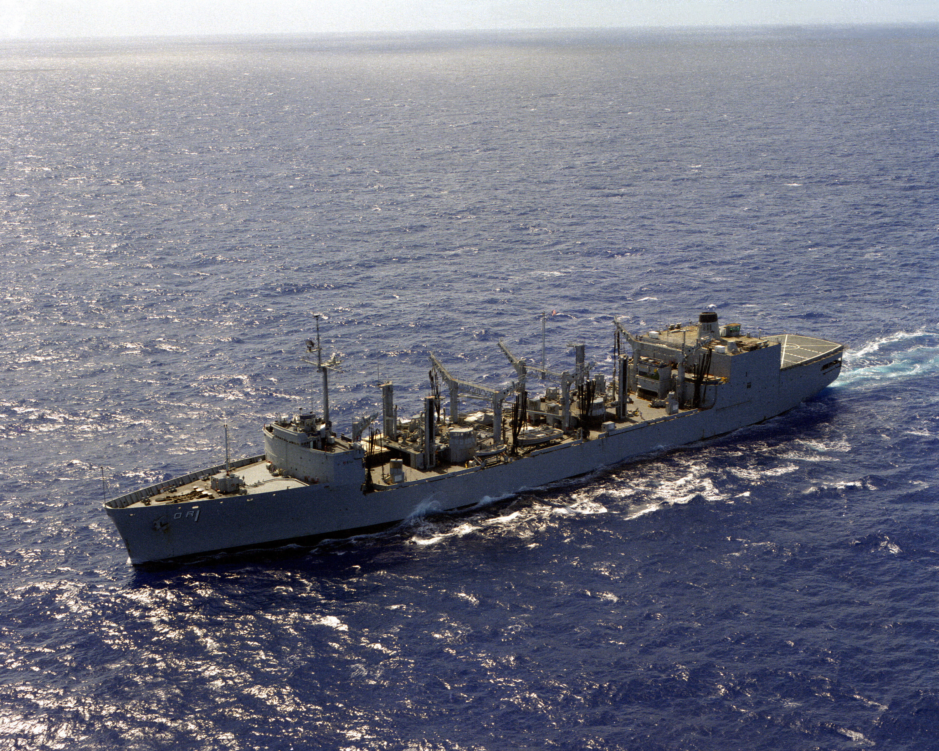 The U.S. Navy replenishment oiler USS Wichita (AOR-1) underway in the Indian Ocean on 3 December 1985.